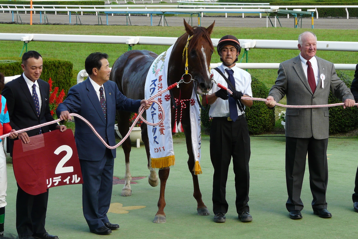 Ridill(horse)20111029(2)